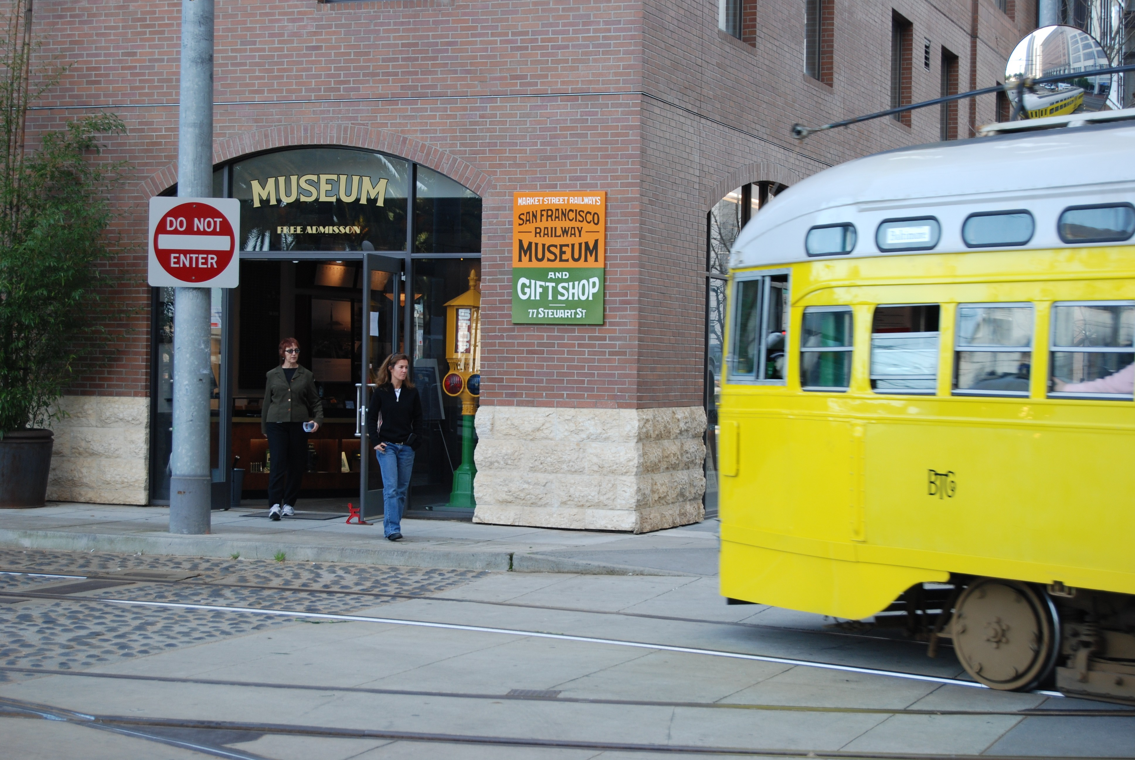 Entrance to the San Francisco Railway Museum (taken 02/2007)